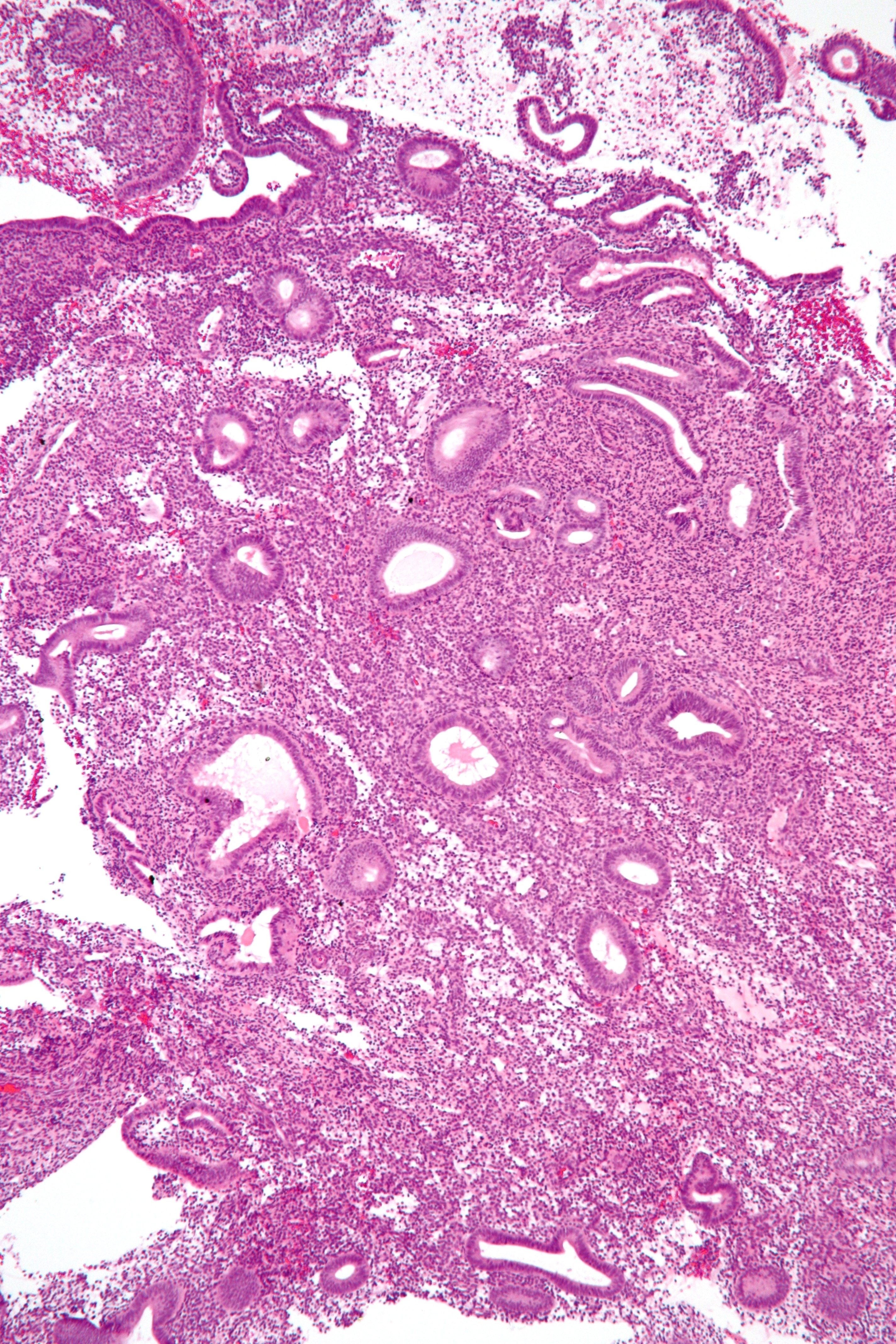 Intermediate magnification micrograph of simple endometrial hyperplasia without nuclear atypia. H&E stain. Endometrial biopsy. Histomorphologic features: Normal gland-to-stroma ratio (~1:3). Proliferating pseudostratified glandular epithelium. Irregular endometrial glands: Dilated glands or gland with variable size. Non-ovoid/non-circular glands. Related images Low mag. Intermed. mag. High mag.